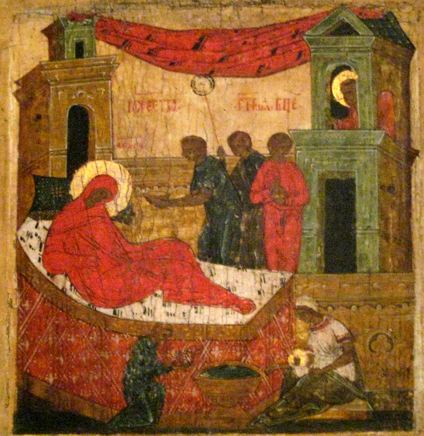 Birth of Virgin Mary. Upper fragment of image of a saint Savva (Преподобный Савва) from iconostasis